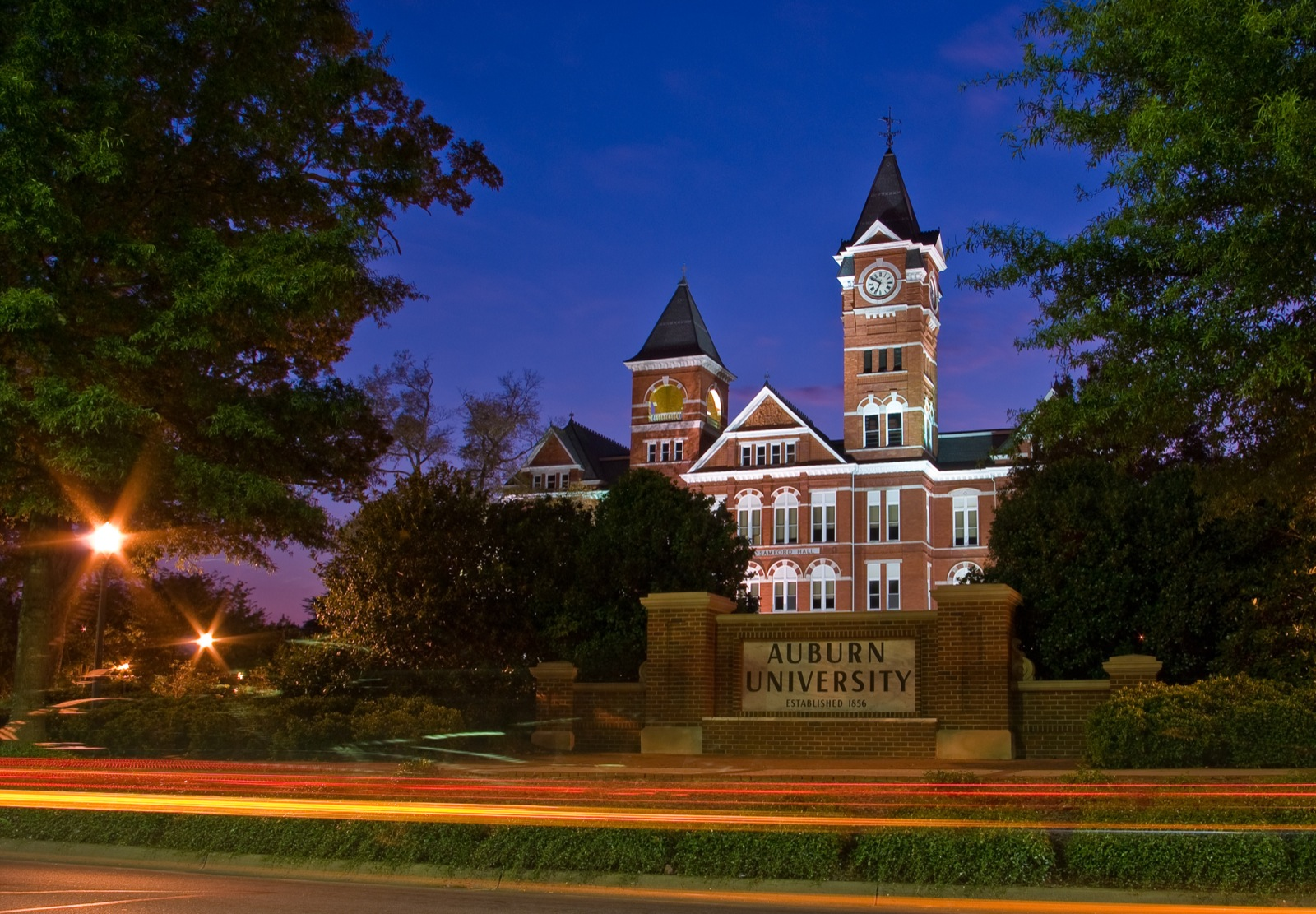 Samford Hall at night. One of the most photographed buildings at Auburn University.